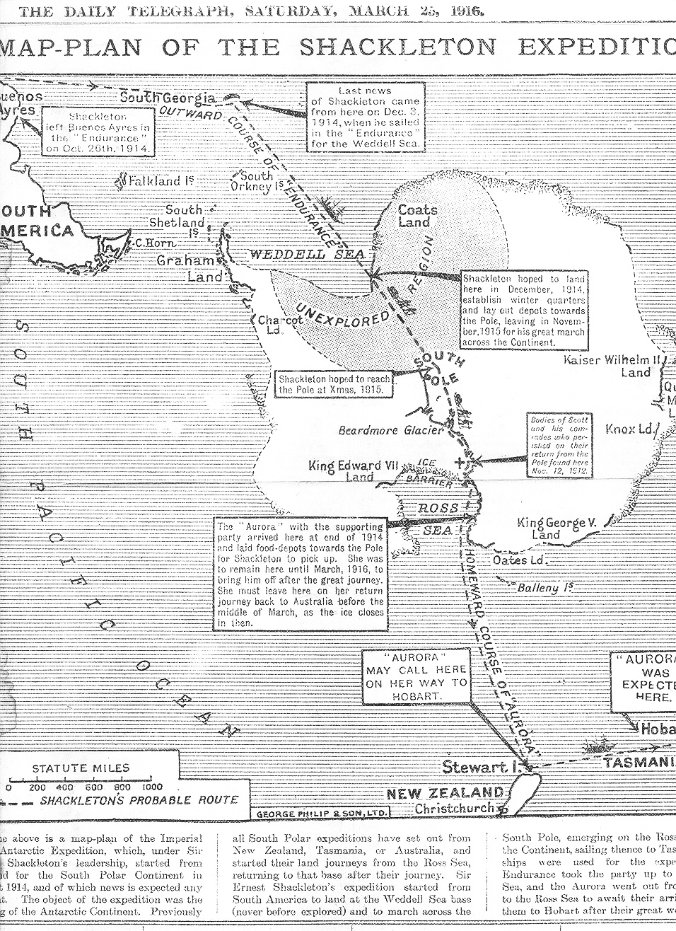 "The above is a map-plan of the Imperial Trans-Antarctic Expedition, which, under Sir Ernest Shackleton's leadership, started from England for the South Polar Continent in August 1914, and of which news is expected any moment."